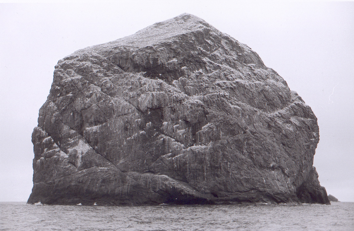 View of Stac Lee from the south, St Kilda